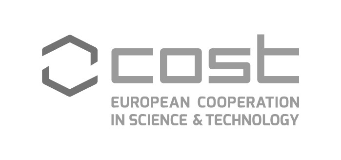 This logo file has been created for the COST Association by design agency Hoet & Hoet